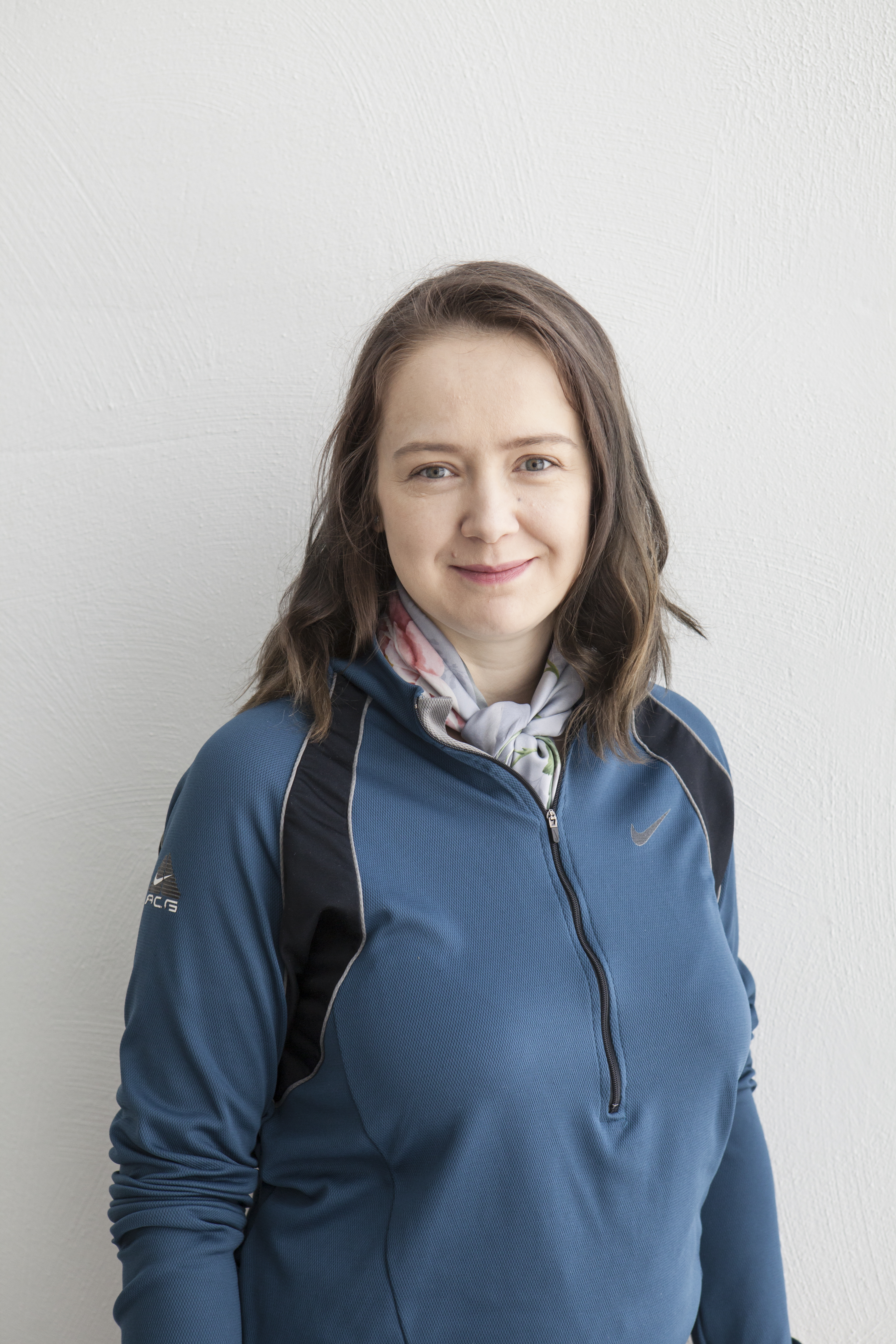 Kiasma; Eri mieltä, Nykytaiteen toisinajattelijoita, 09.10.2015 - 20.03.2016Tanja Muravskajakuva / Photo:Kansallisgalleria / Pirje MykkänenFinlands Nationalgalleri / Pirje MykkänenFinnish National Gallery / Pirje Mykkänen